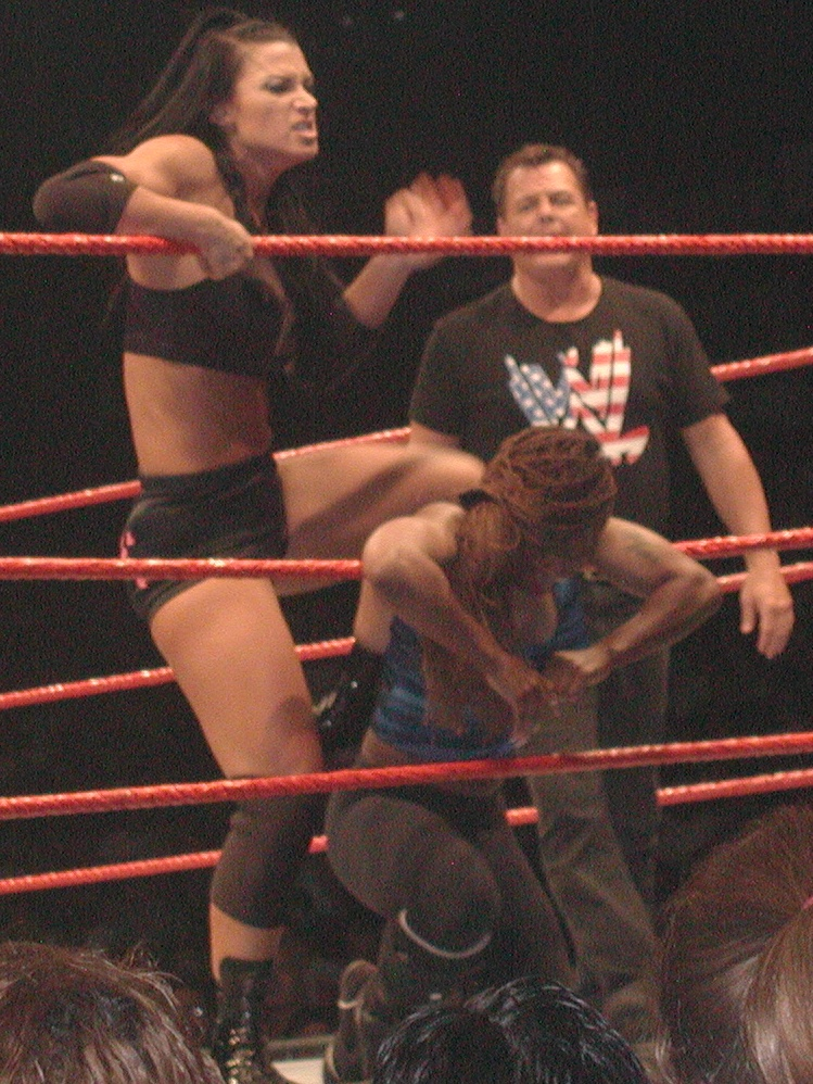 Victoria in action at a WWE Raw live event. Allstate Arena, Rosemont, IL, September 12002. Taken by me. Jackie Moore and Jerry Lawler also pictured.